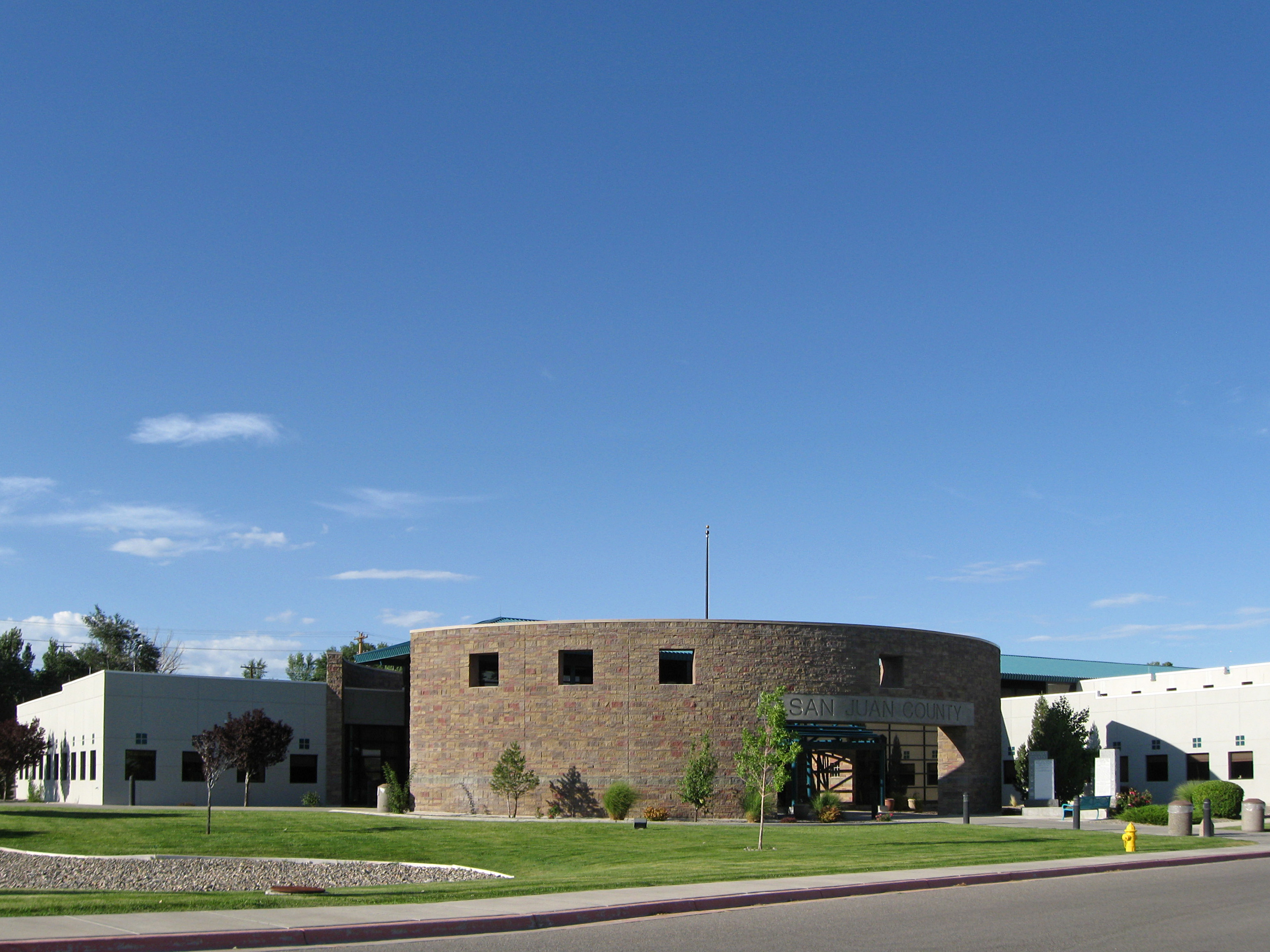 San Juan County Administration Building, located at 100 S. Oliver Drive in Aztec, New Mexico. This building contains all the traditional court house functions except the courts, which are located in two adjacent buildings.